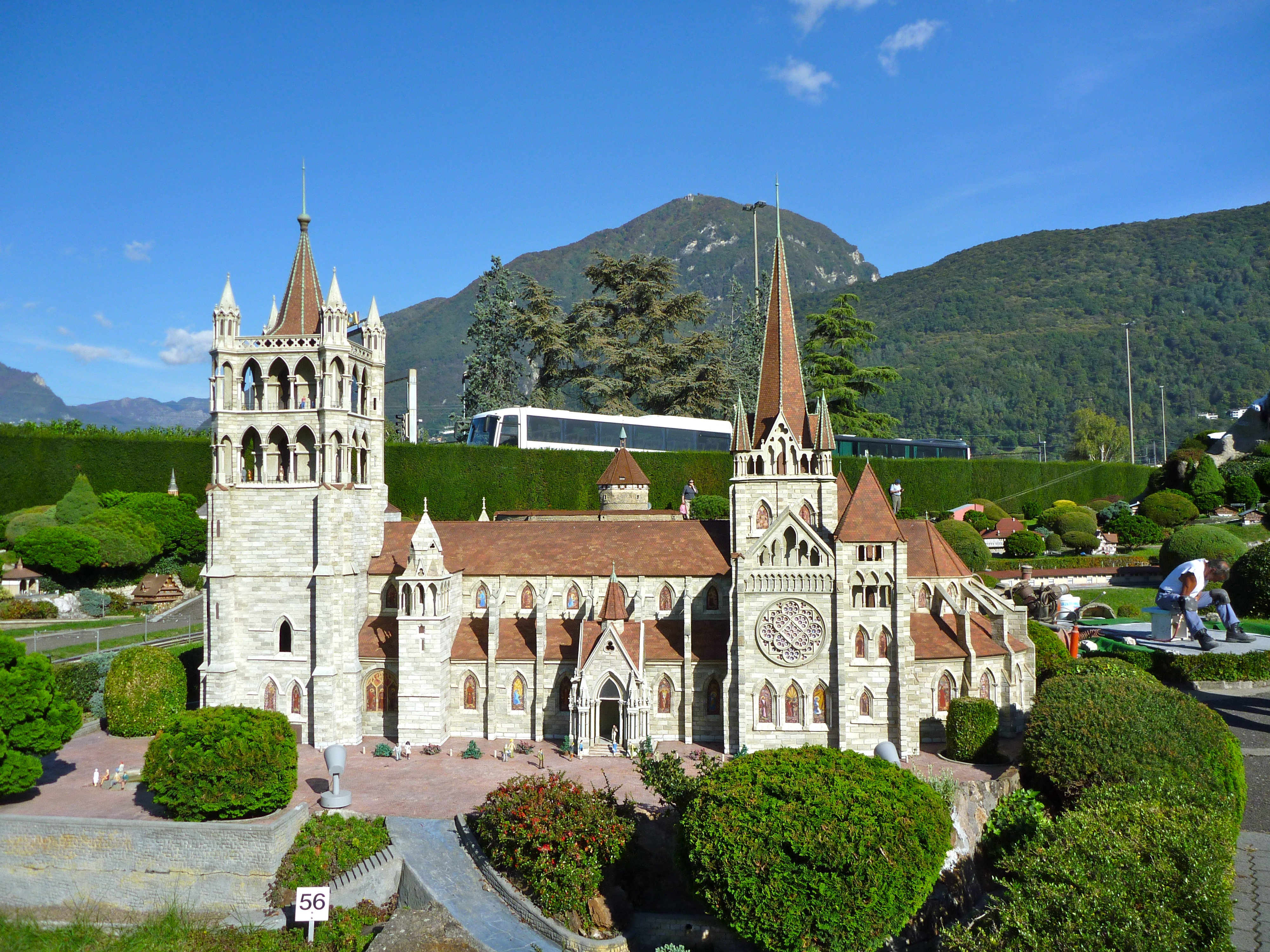 Lausanne Cathedral at Swissminiatur